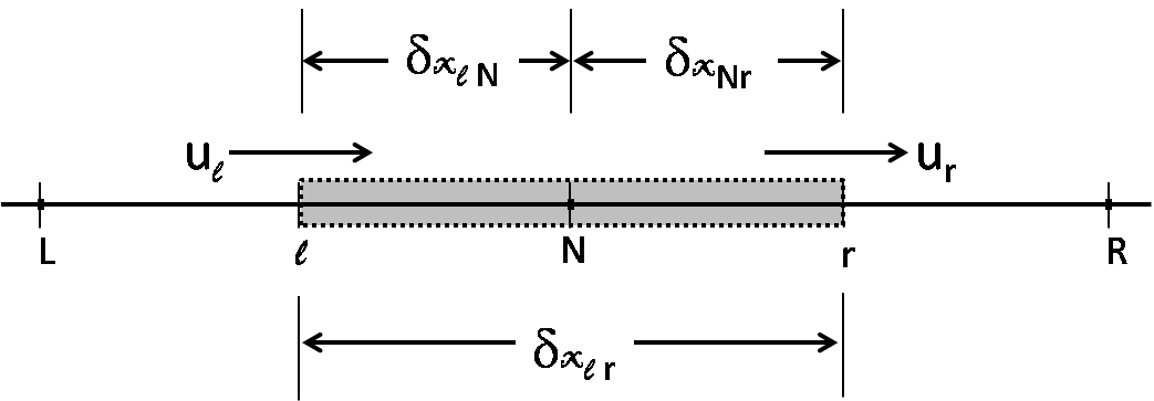 The grid used for discretisation in Central Difference Scheme. It shows the Node 'N', Node 'R' on it's right and Node 'L' on its left. It also shows the faces 'r' and 'l'.